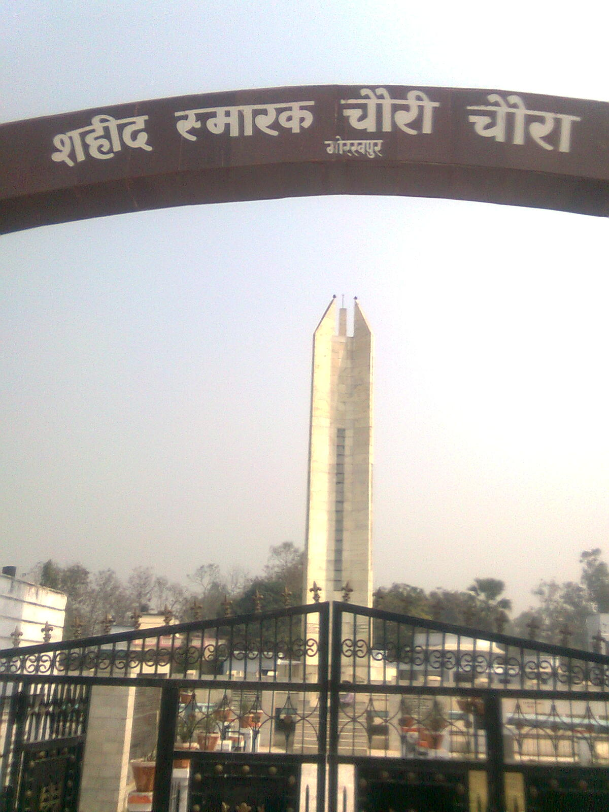 SHaheed Smaarak